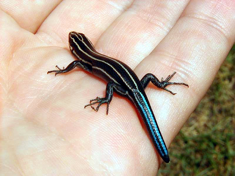 Five-lined Skink (Eumeces inexpectatus)